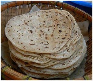 Mosul Saj Bread